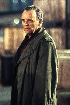 An upper body shot of actor Anthony Hopkins, cropped from a larger file.